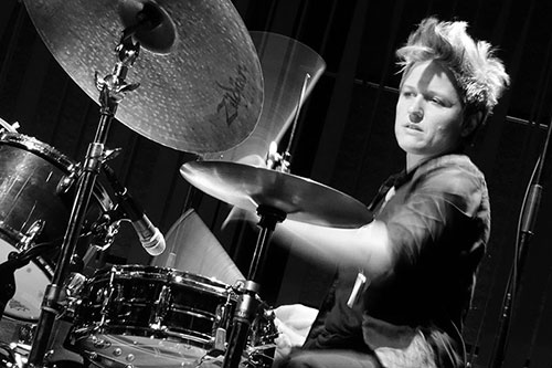 Alison Miller at Reykjavik Jazz Festival 2015